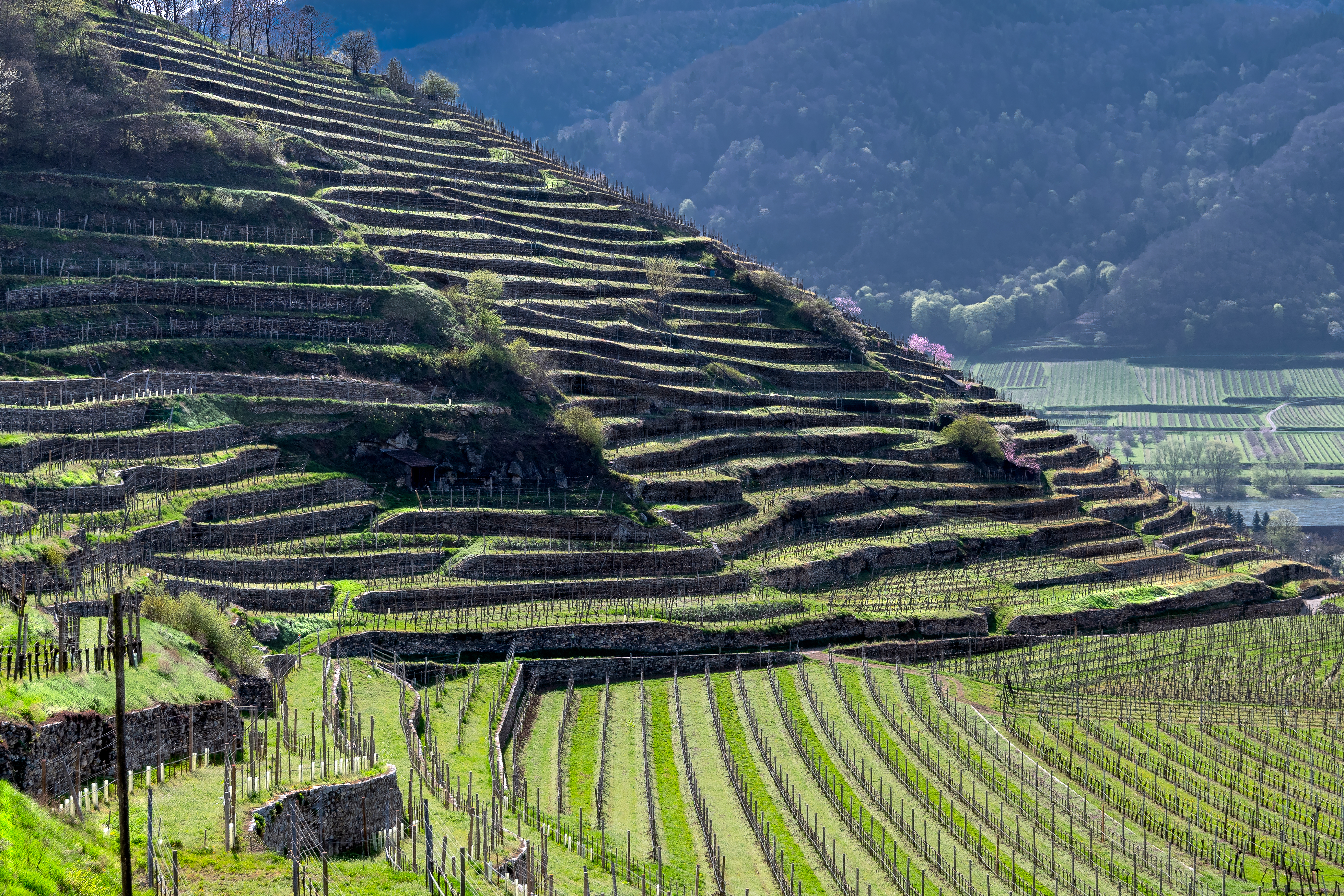 Vineyard "Singerriedl" in Spitz on Danube river, Wachau, Austria